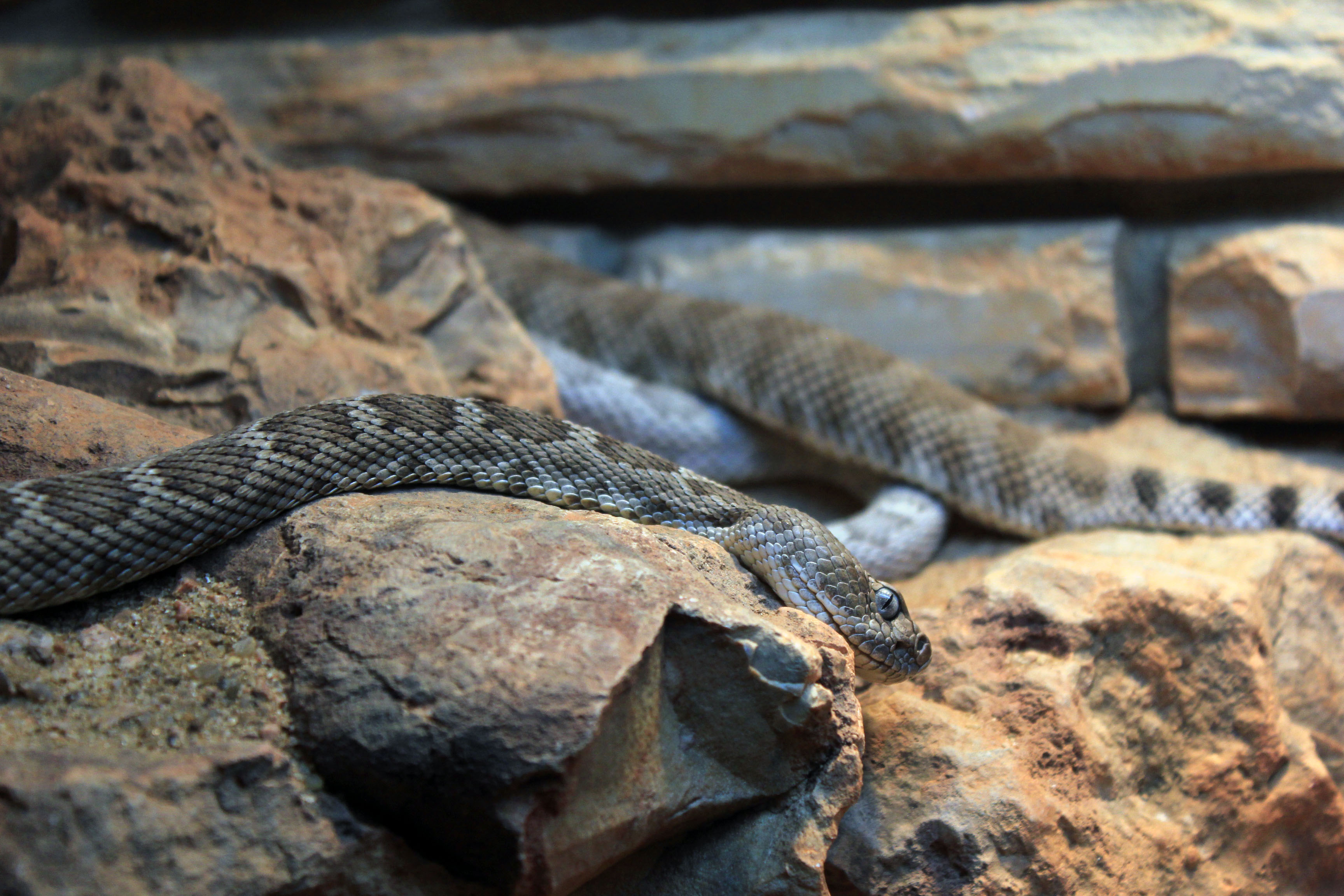 Pictures of fine cold-blooded animals Santa Catalina Rattlesnake (Crotalus catalinensis)